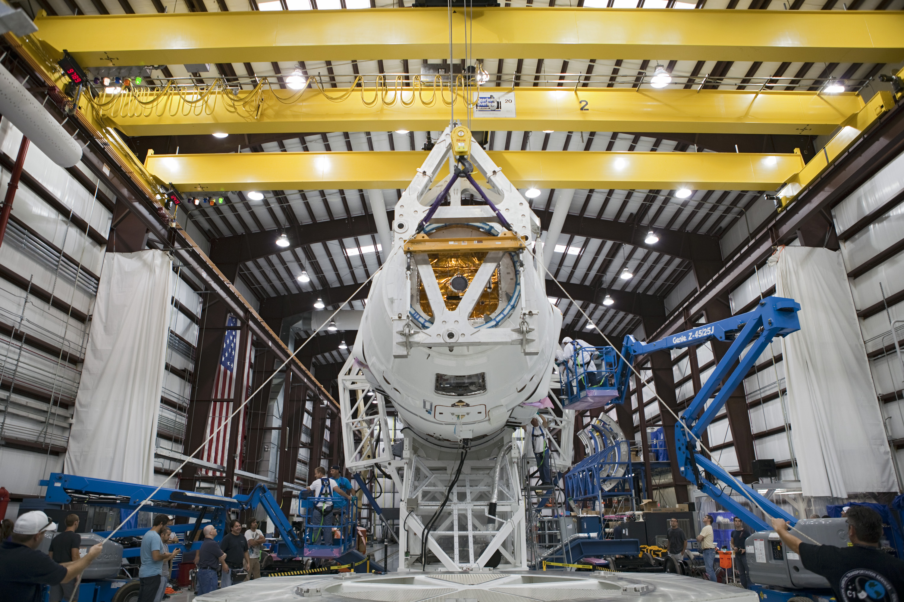 Dragon Readies for Flight Technicians attach the Dragon capsule to a Falcon 9 rocket at the SpaceX facility at Cape Canaveral Air Force Station, Fla., during preparations for the CRS-1 mission. SpaceX is set to launch the first of a dozen operational missions for NASA to deliver more than 1,000 pounds of supplies to the International Space Station on Oct. 7. Launch time is 8:35 p.m. EDT from Space Launch Complex 40 at Cape Canaveral Air Force Station in Florida, just a few miles south of the space shuttle launch pads. The spacecraft will be joined to the station three days later. Image Credit: NASA/Kim Shiflett